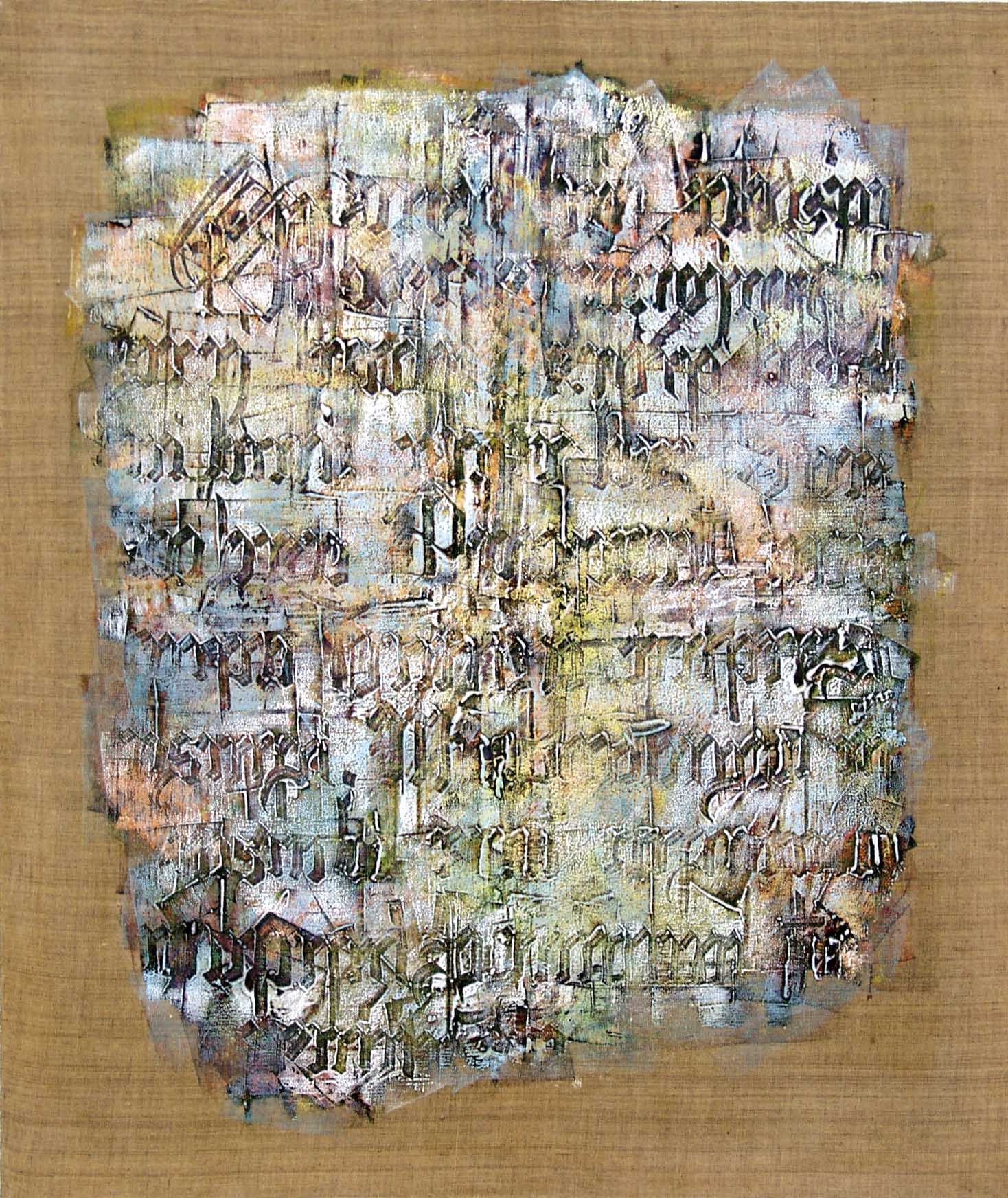 „Viduramžiai". MDI on canvas. 130x110 cm. 1997